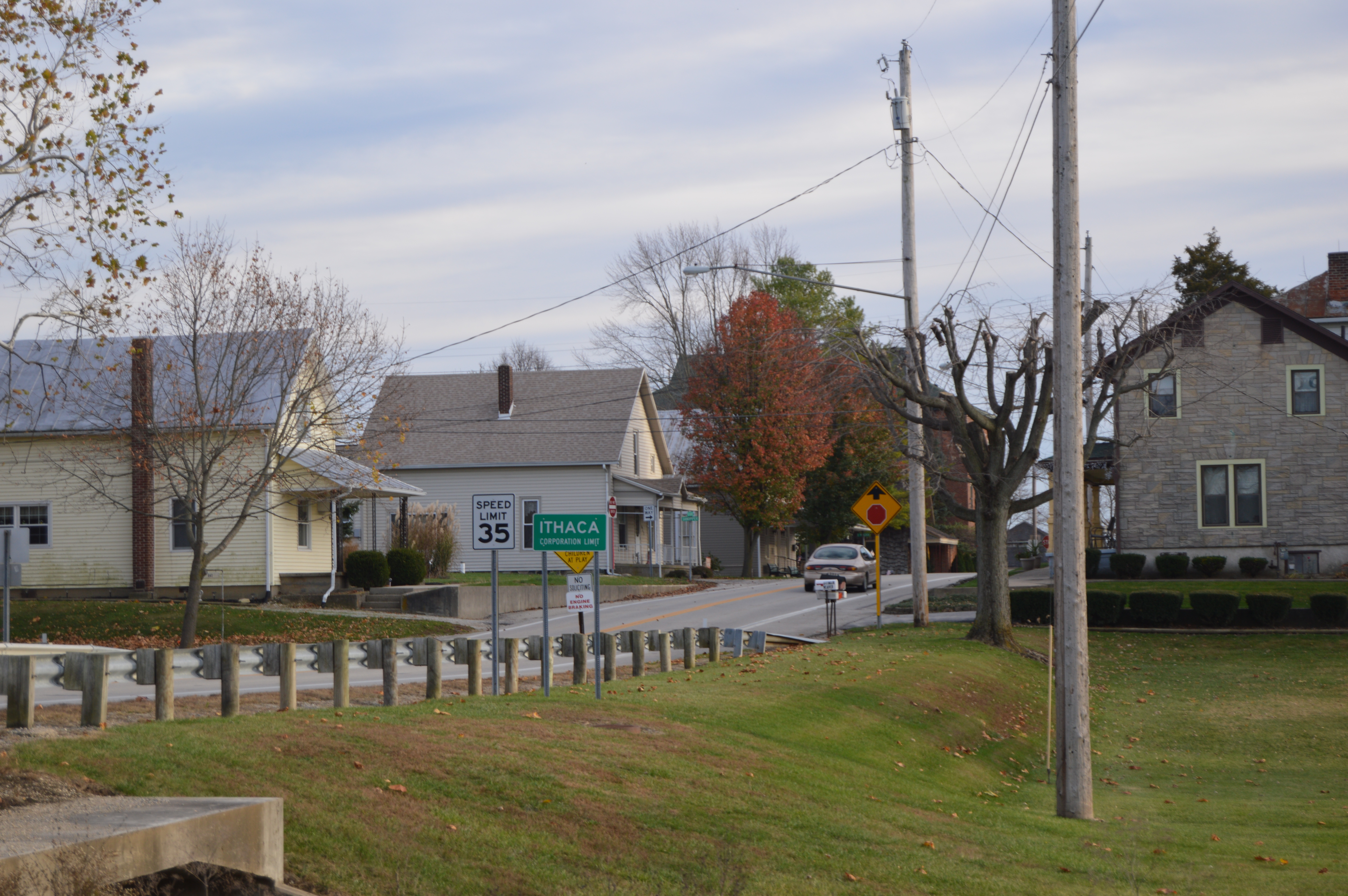 Entering Ithaca, Ohio, United States from the north on Main Street, the combined State Routes 503 and 722.